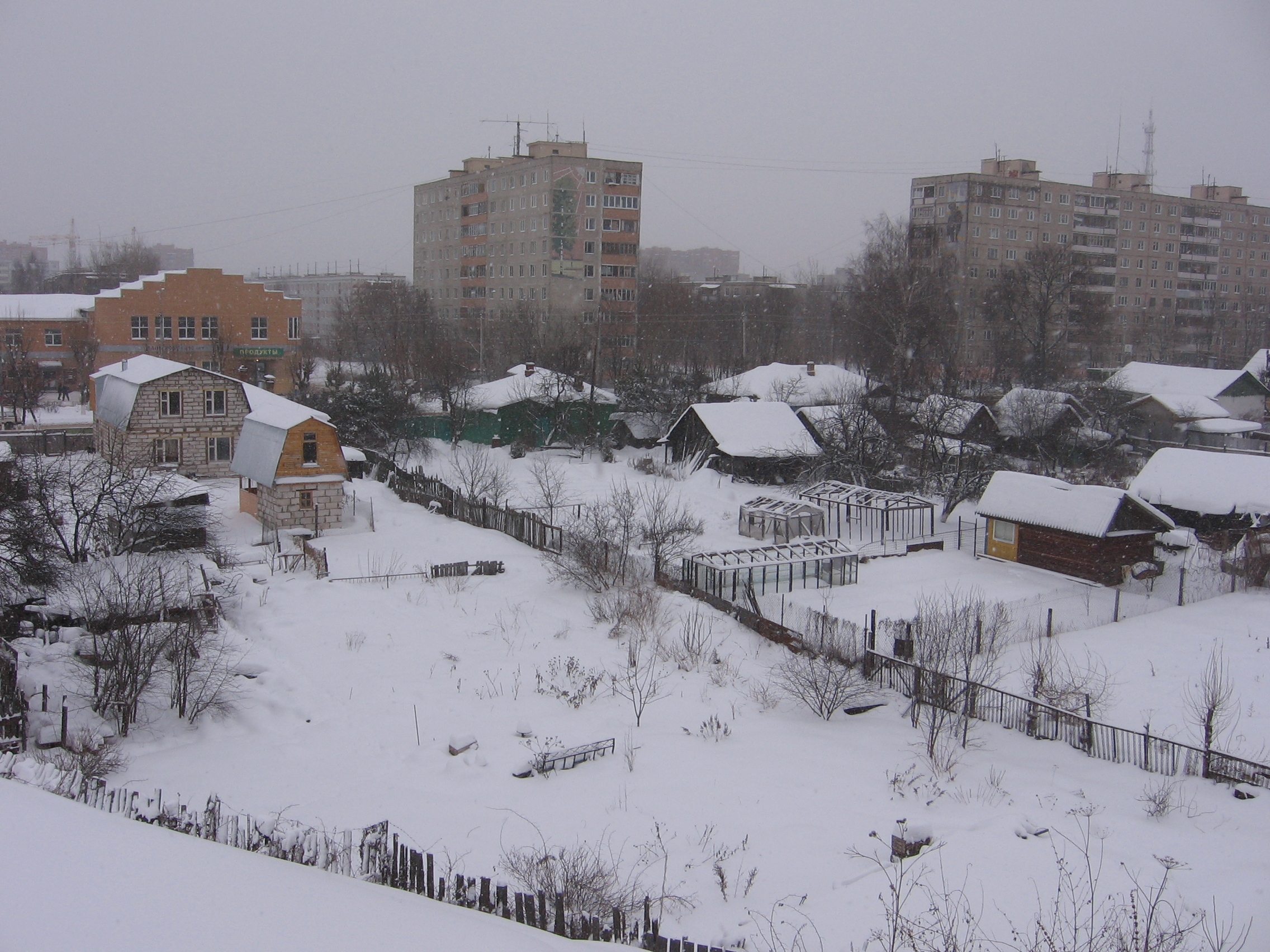 Overview of the town Dmitrov, Russia